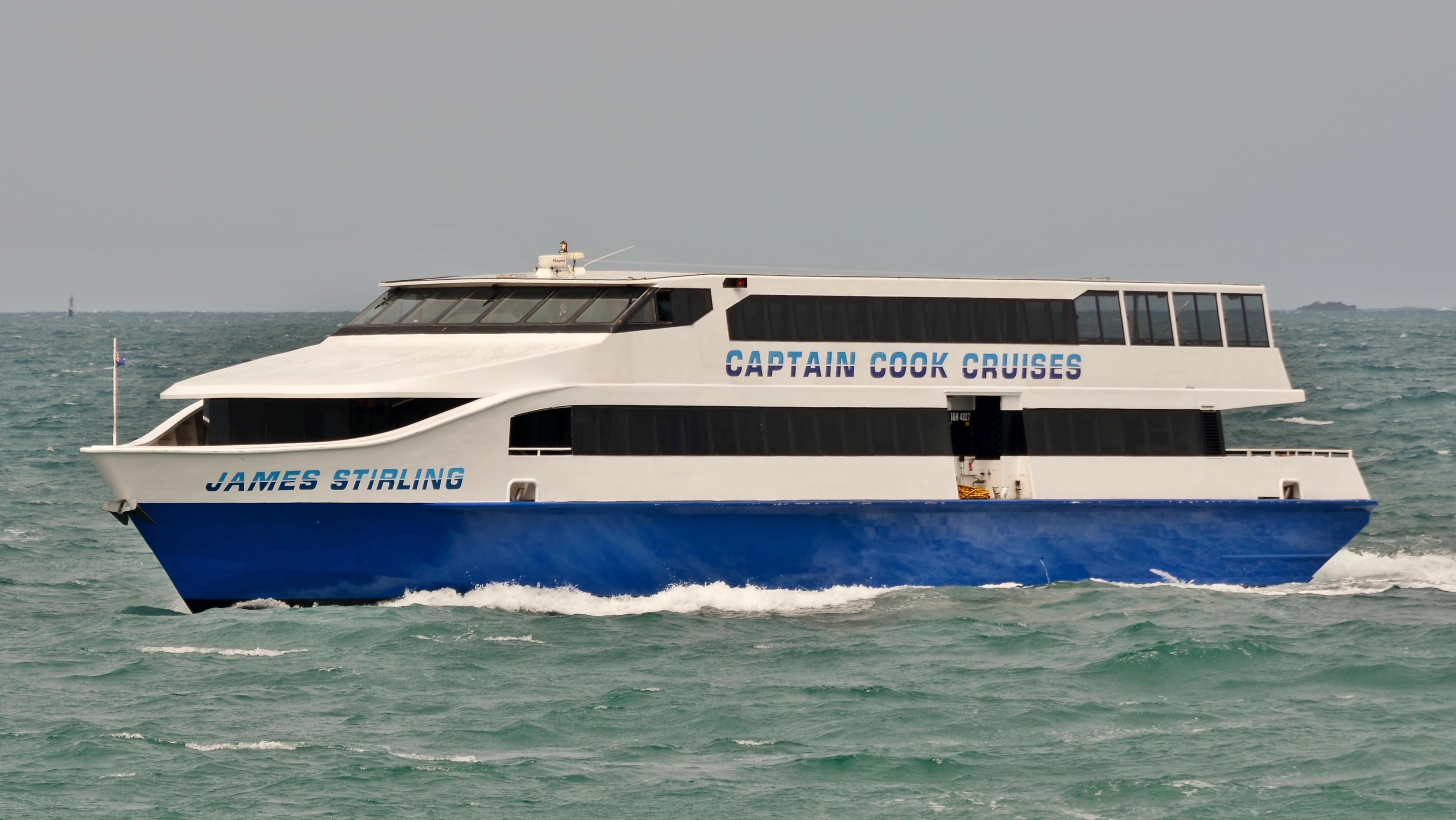 James Stirling entering the inner harbour of Fremantle Harbour, Western Australia.